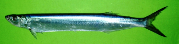 Chirocentrus nudus collected in Pakistan.